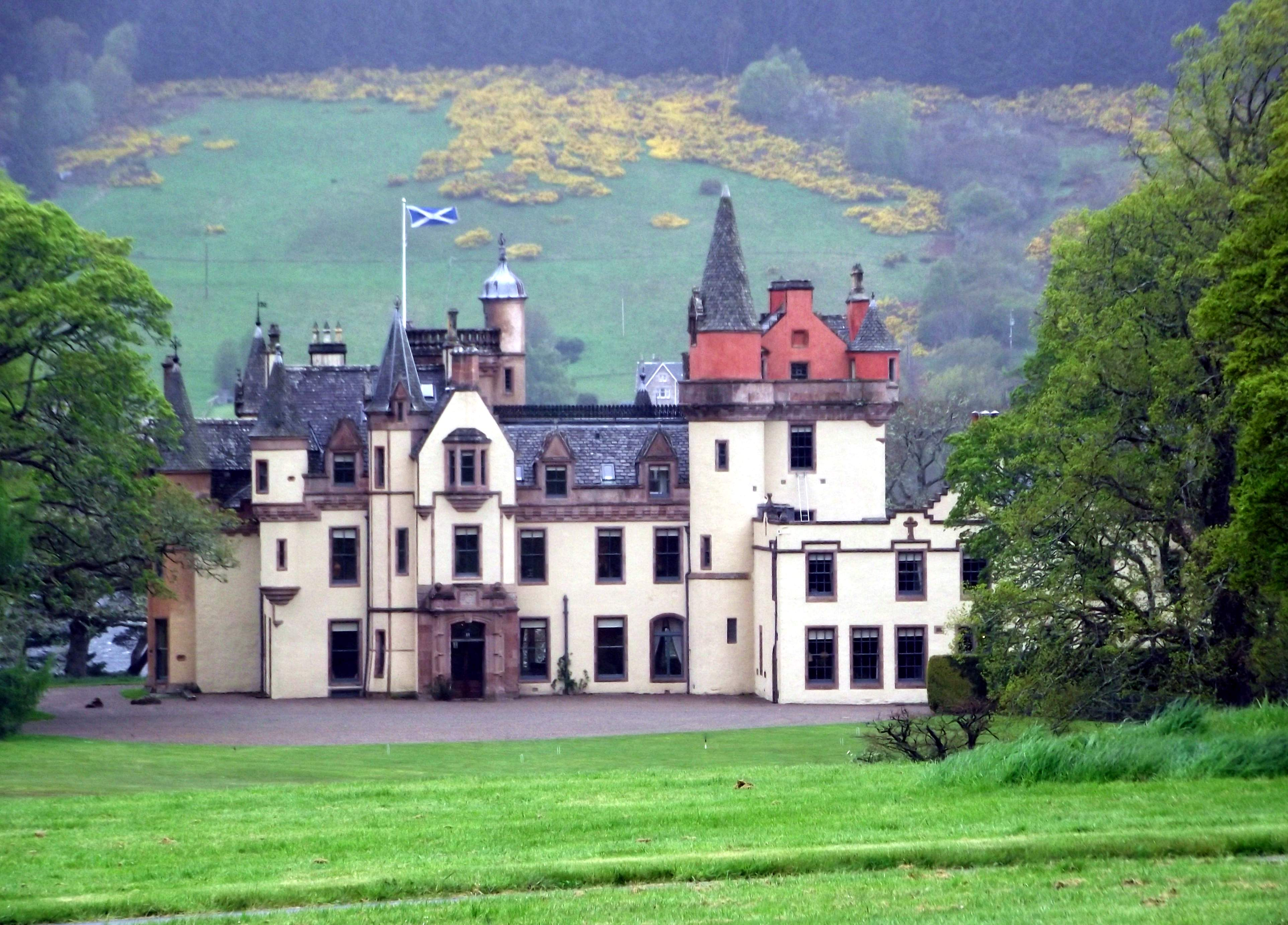 1,000 views on 14th December 2013 The yellow bushes are whins (gorse) on the slopes of the opposite side of Loch Ness. The Pipe Band played at a private engagement at Inverness's very own fairytale castle this evening. The weather was windy and raining, so thankfully it was possible for the band to play indoors in the Castle Hall. "Nestling on the quiet southern shore of the famous Loch Ness, close to the City of Inverness, the capital of the Scottish Highlands, Aldourie Castle Estate offers you a rare taste of Highland living at its best." Please visit for lots more fascinating information about the Castle and its Estate.